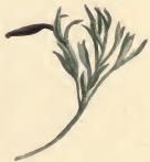 Stainton’s Natural History of the Tineina (1855–1873): Coleophora ditella mined leaf of Artemisia campestris with larva-case attached